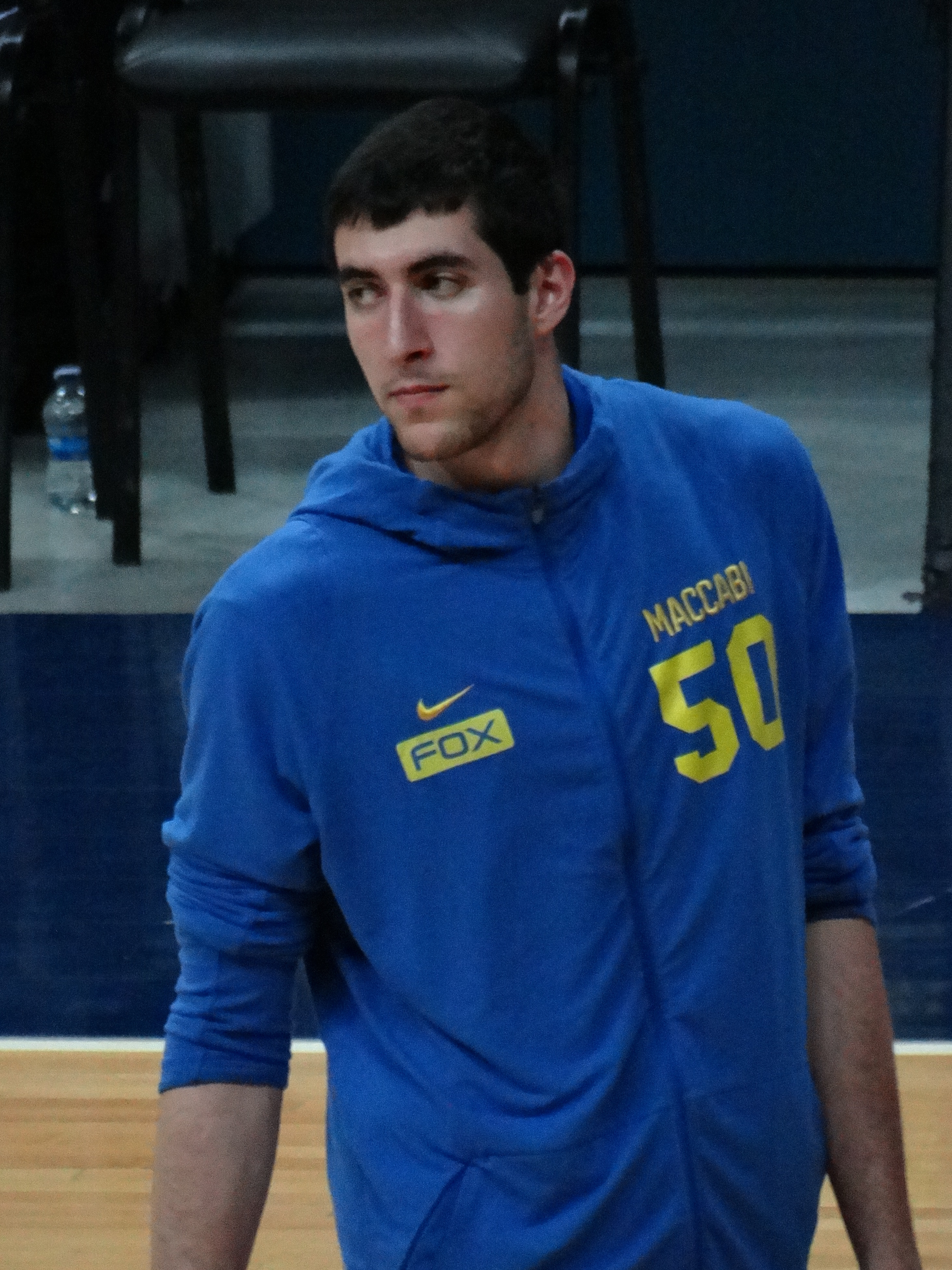 Yovel Zoosman 50 Maccabi Tel Aviv B.C. EuroLeague 20180320